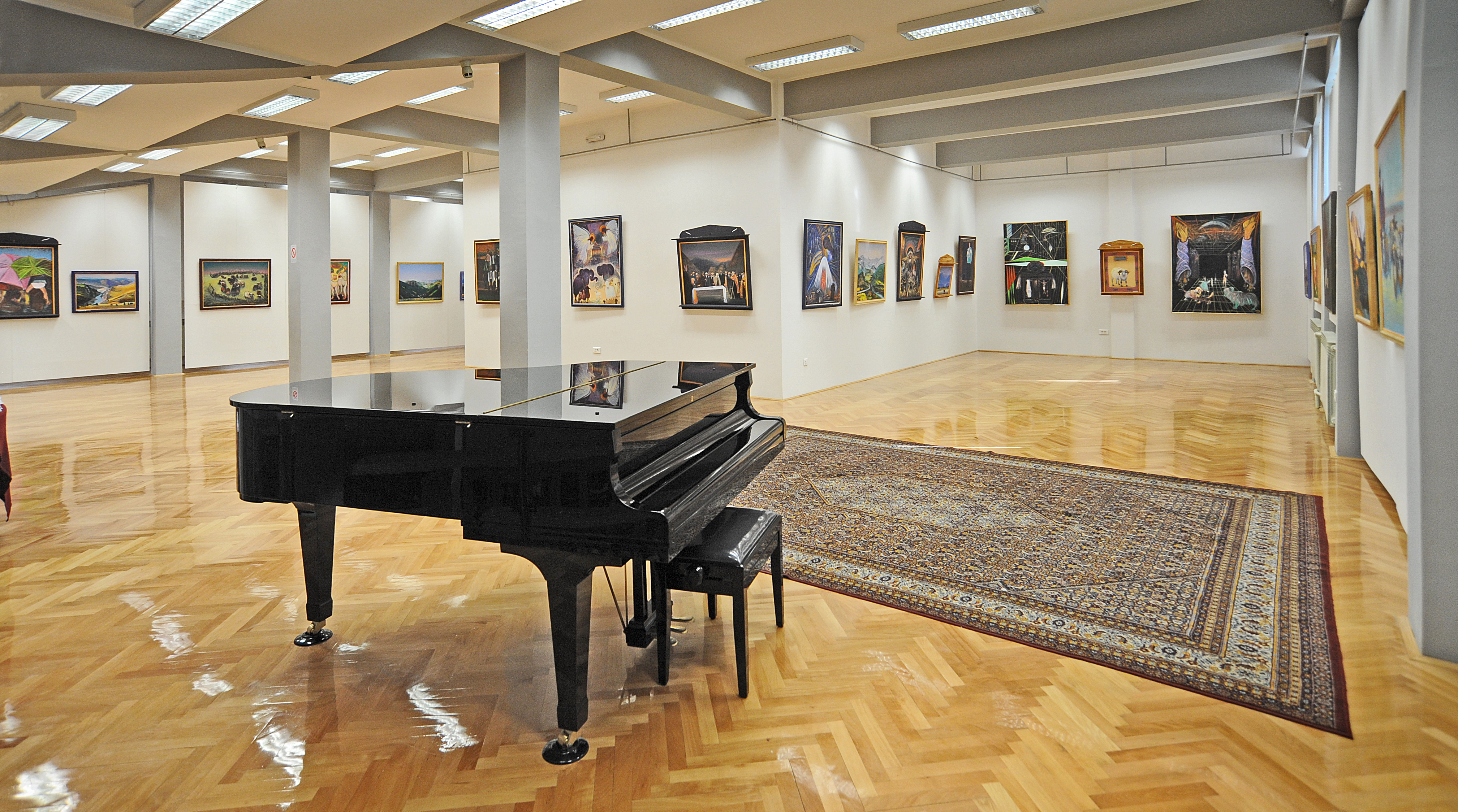 Piano in University Library gallery in Kragujevac, Serbia